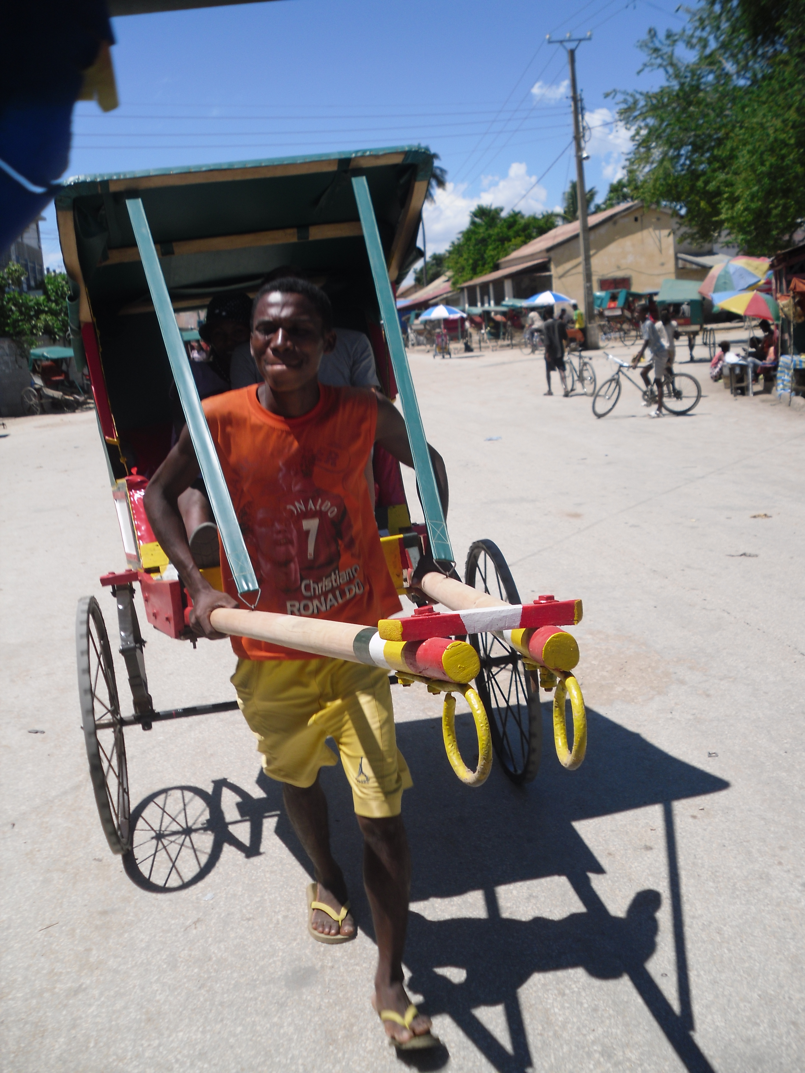 Rickshaws, Toliara, Madagascar